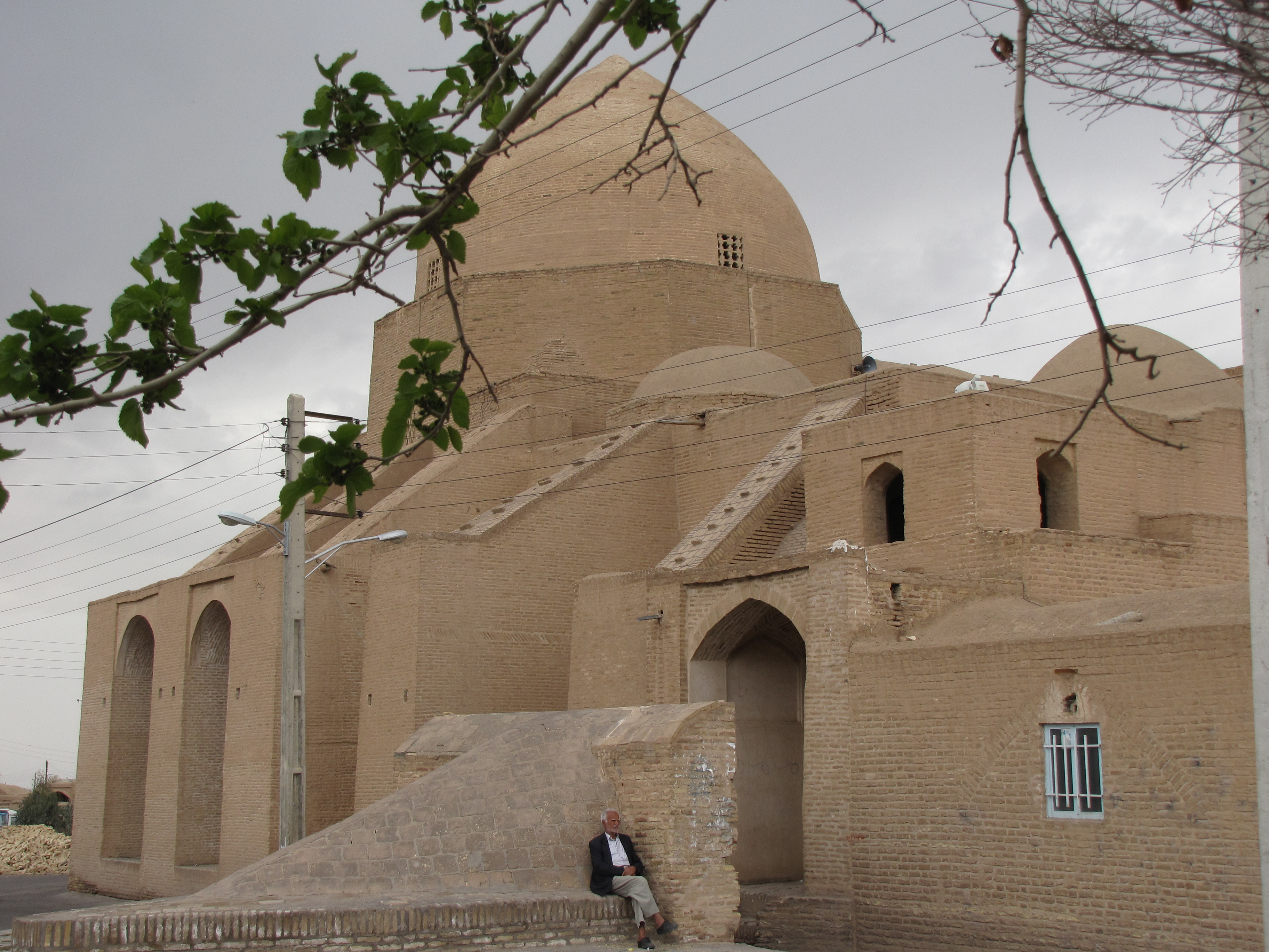 Ardestan Jame'e Mosque. Ardestan- Iran